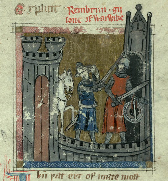 Produced in London in the 1330s, the manuscript provides a unique insight into the English language and literature that Chaucer and his generation grew up with and were influenced by. It acquired its name from its first known owner, Lord Auchinleck, who discovered the manuscript in 1740 and donated it to the precursor of the National Library in 1744. Auchinleck contains a large collection of Middle English poetry, containing a wide range of genres, the above detail being one of eight romances. Reinbroun in particular shows an interest in the supernatural and the fairy world. Transcription .... More ....